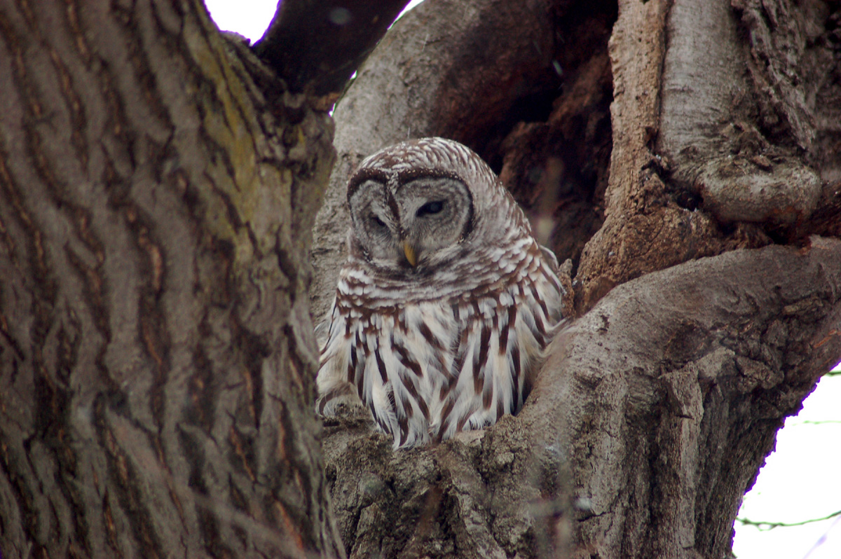 Barred Owl in Minnehaha Falls Park - Minneapolis, Minnesota